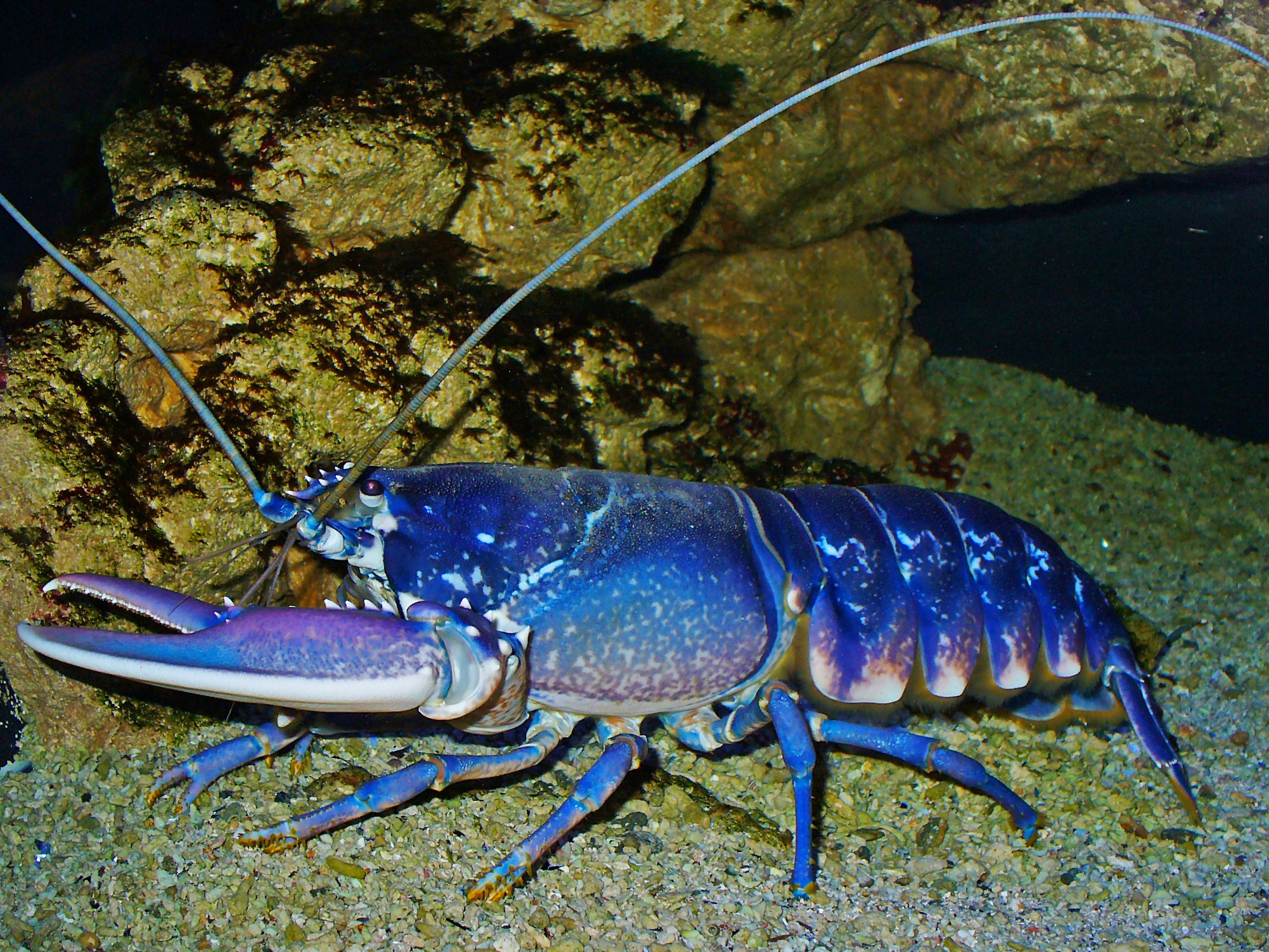 Homarus gammarus, Nephropidae, European Lobster; Staatliches Museum für Naturkunde Karlsruhe, Germany. The digestive juice is used in homeopathy as remedy: Homarus gammarus (Hom.)